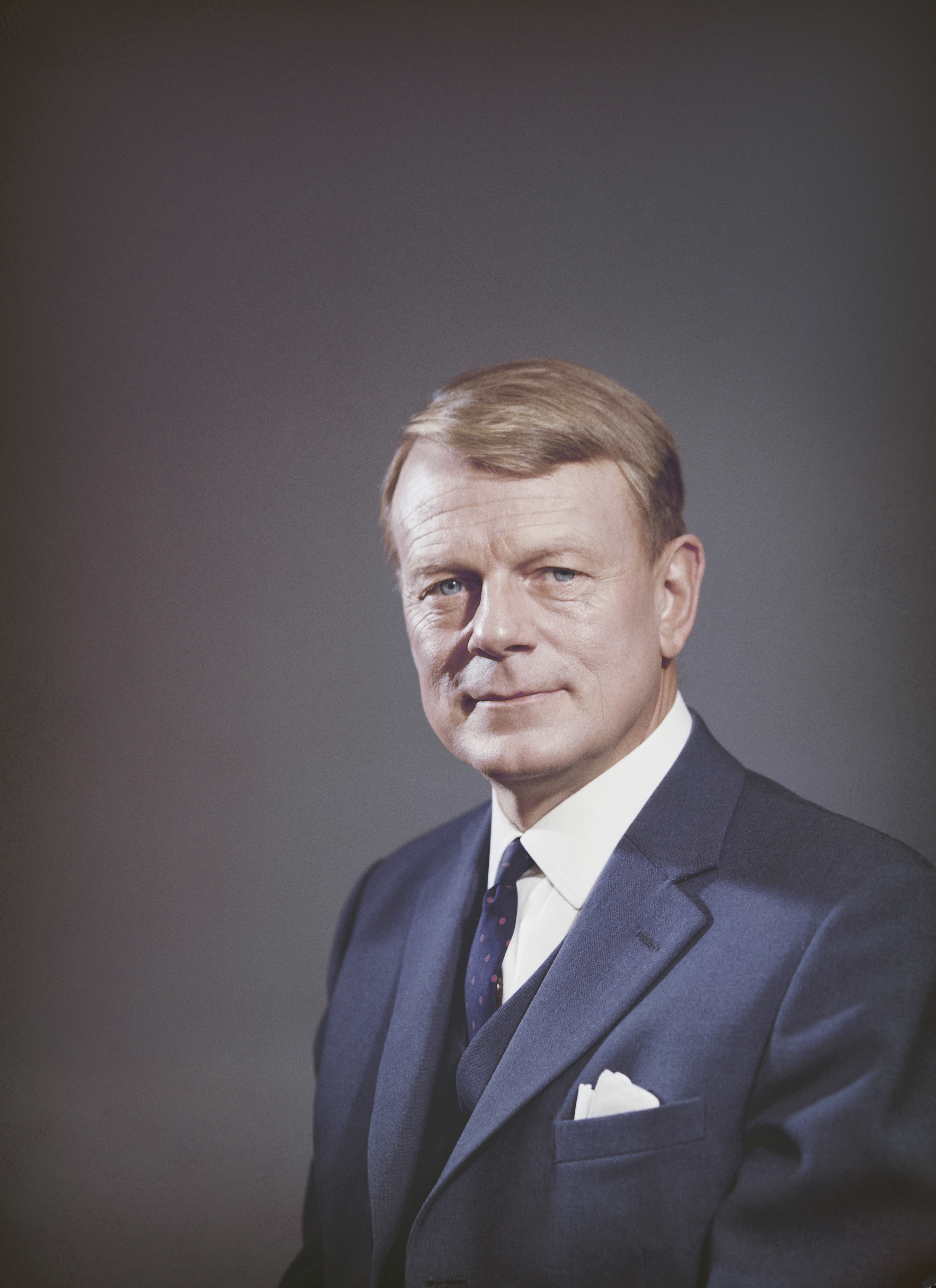 Photograph of the Finnish physician and professor Otto Wegelius (1920–2013).